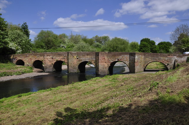 Water Orton Bridge This is a historical bridge over the river Tame, built around 1520 to replace an earlier one.